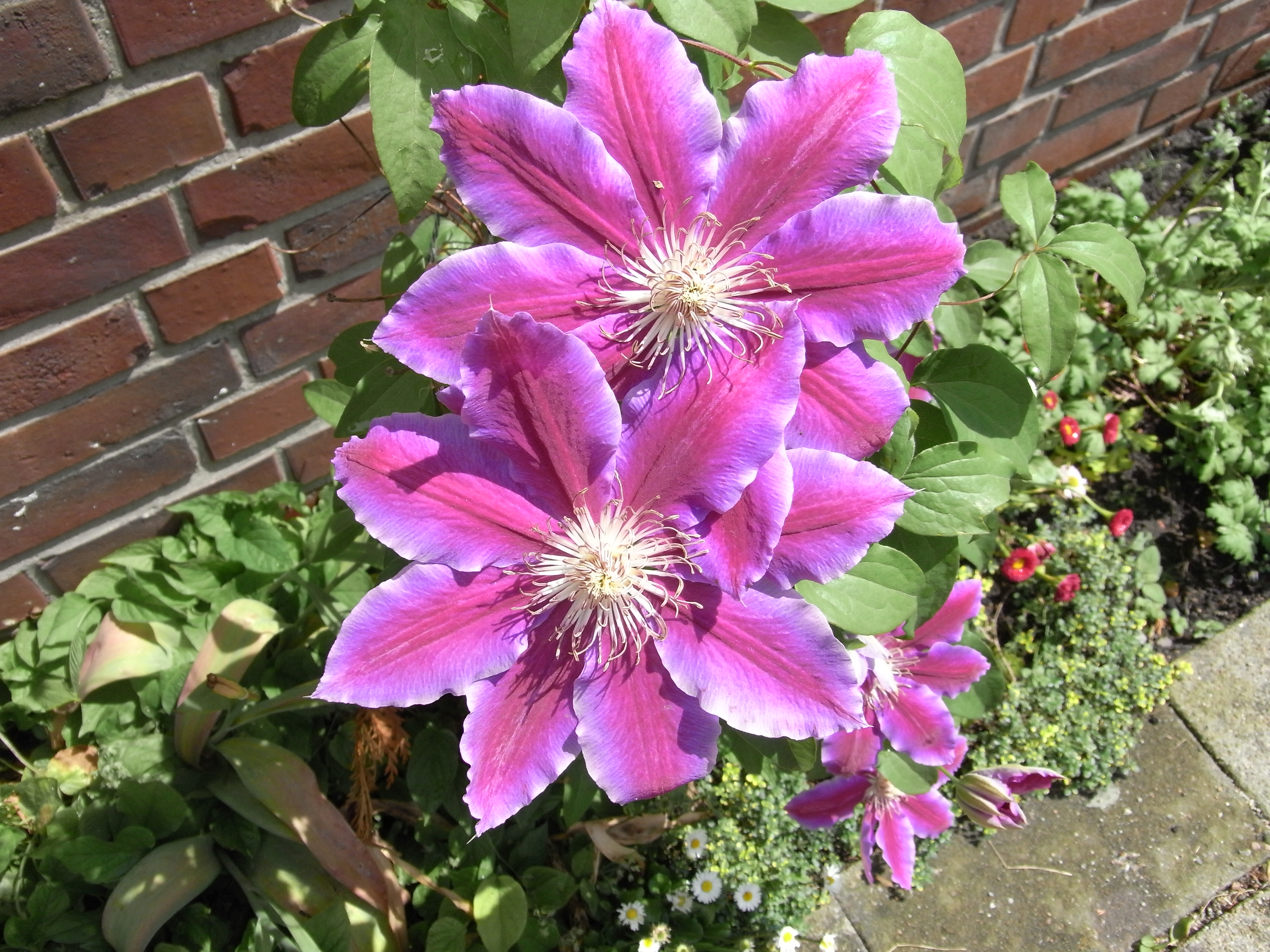 Clematis